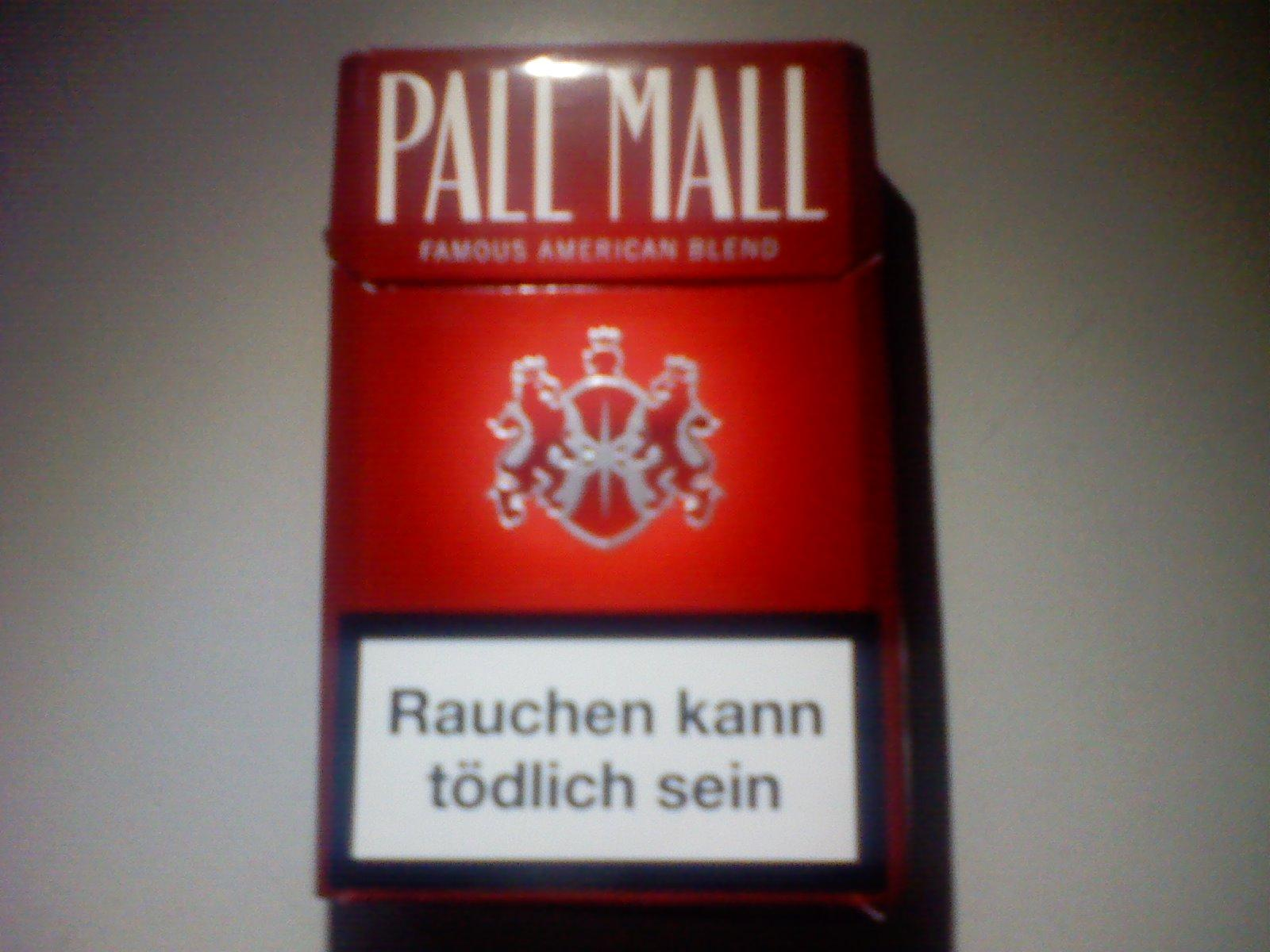 This is a Picture of a Pall Mall-Package that was made with the camera of a mobile phone.